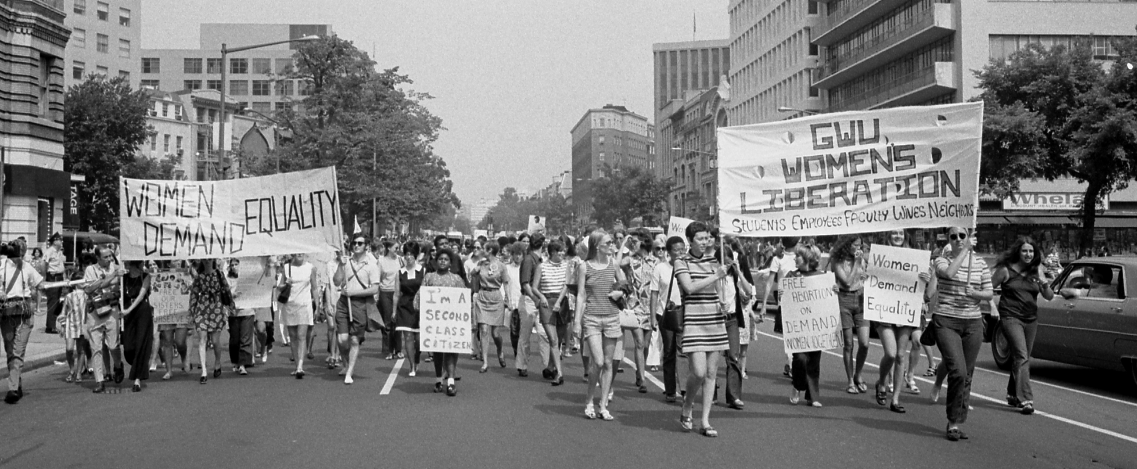 Women's lib[eration] march from Farrugut Sq[uare] to Layfette [i.e., Lafayette] P[ar]k